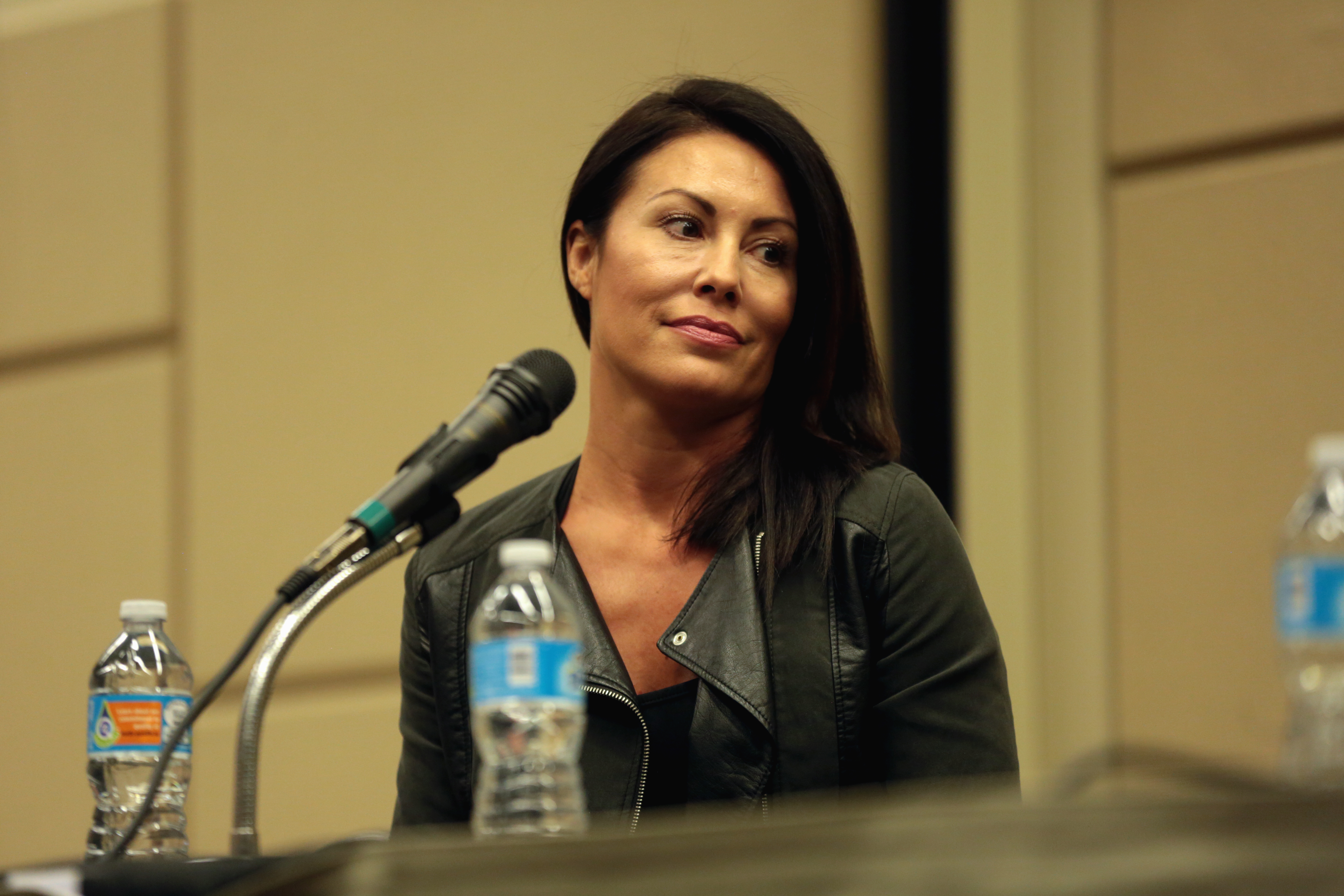 Lia Montelongo speaking with attendees at the 2017 Game On Expo, for "Mortal Kombat 25th Anniversary Reunion", at the Phoenix Convention Center in Phoenix, Arizona.